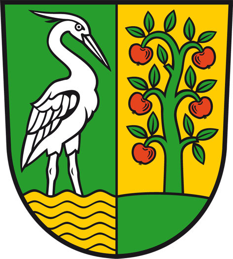 Coat of arms of Marquardt, Part of Potsdam